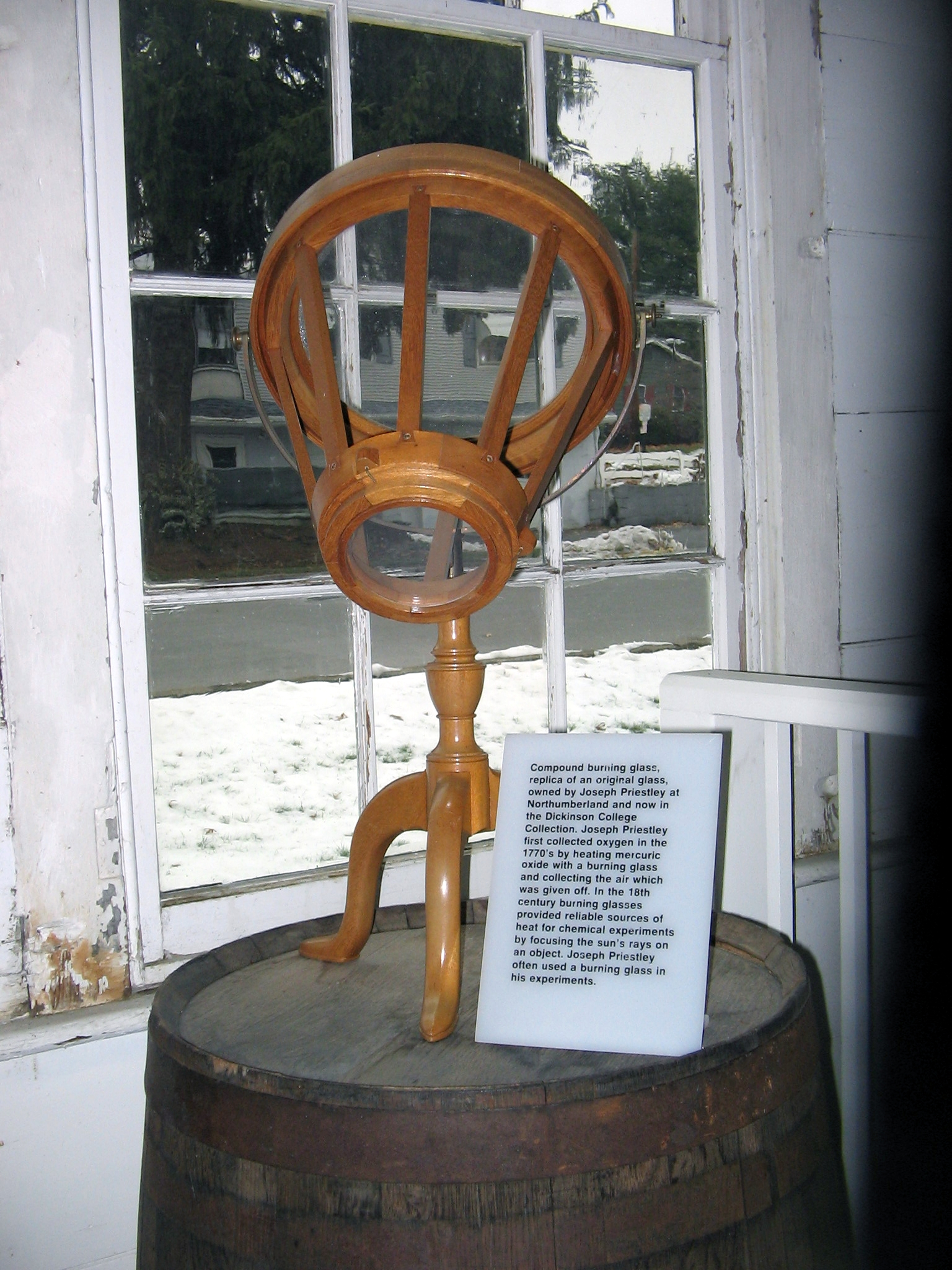 Replica (on a smaller scale than the original) of a Burning Lens owned by Priestley in the Laboratory of the Joseph Priestley House in Northumberland, Northumberland County, Pennsylvania, USA.